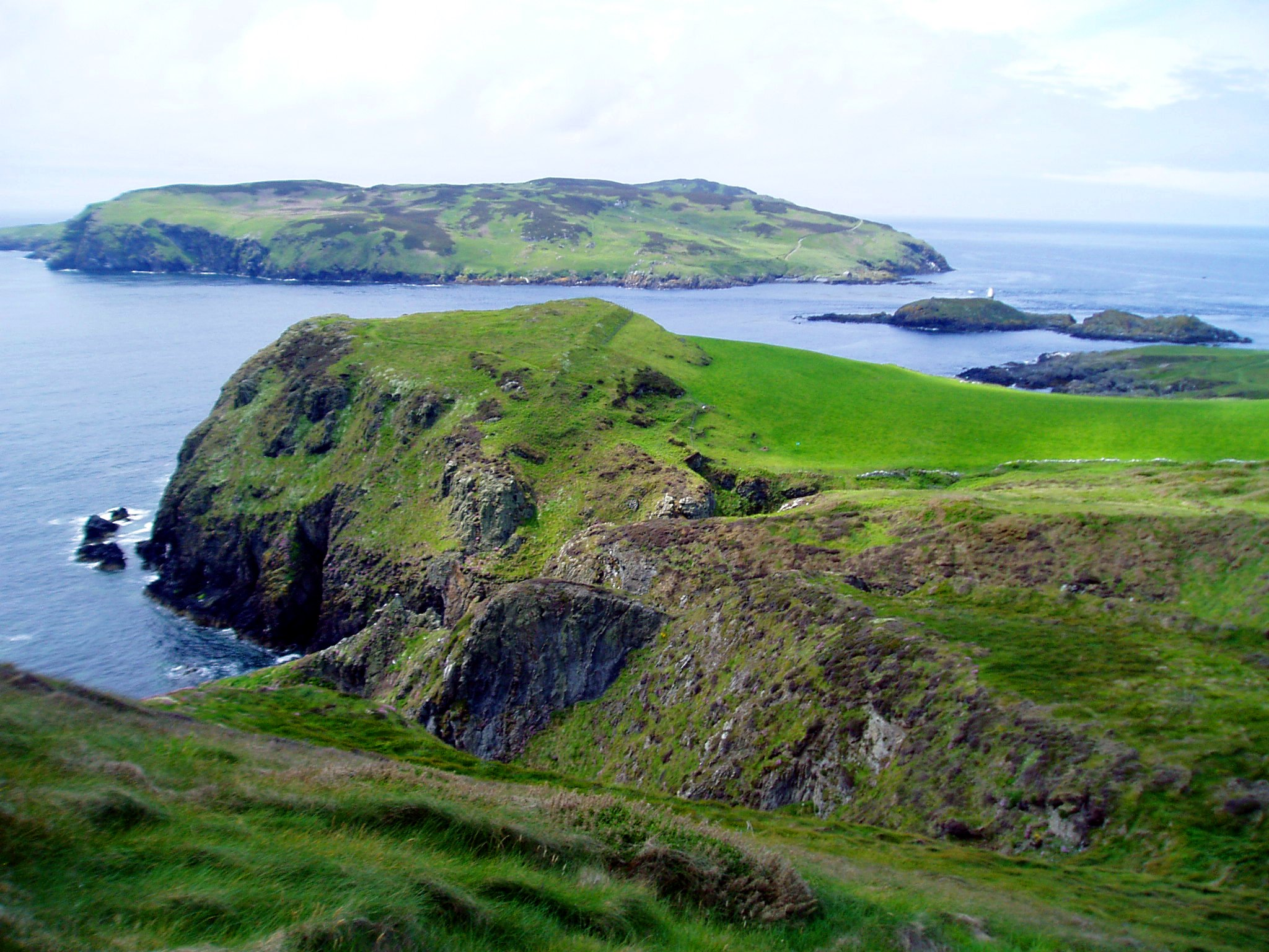 Picture of the Sound, taken by ericbobson on 5th June 2005 Gaelg: Reayrt ny Colloo magh ass Creneash